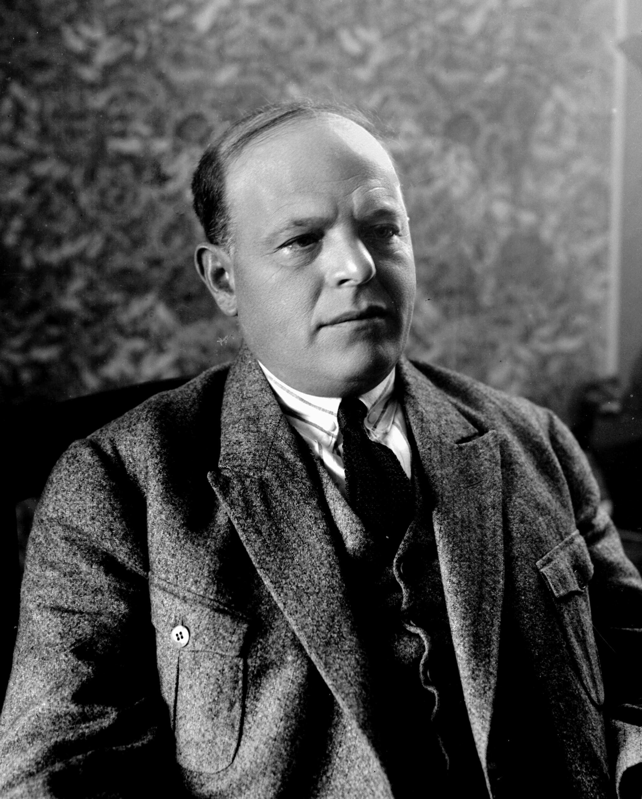 A portrait of Hebrew poet Hayyim Nahman Bialik